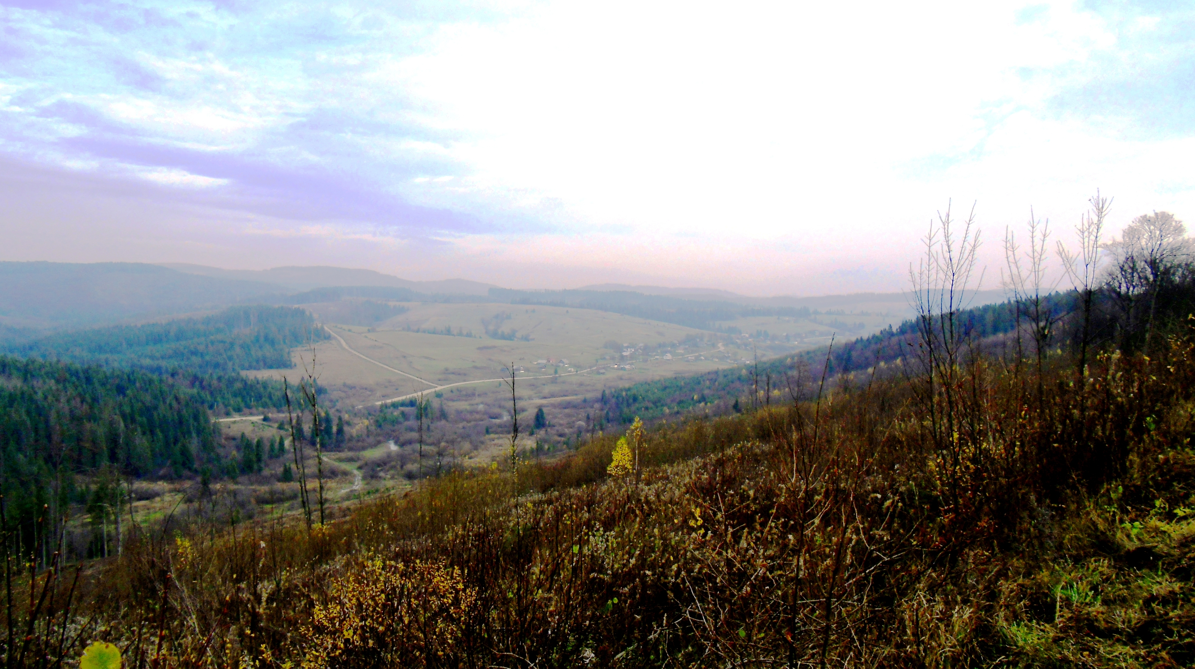 The upper reaches of the river Stryi. Lviv oblast. The river Stryi with Verets'ki pass.